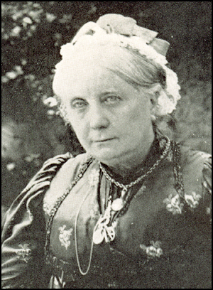 Charles Dickesn's sister-in-law Georgina Hogarth in later years